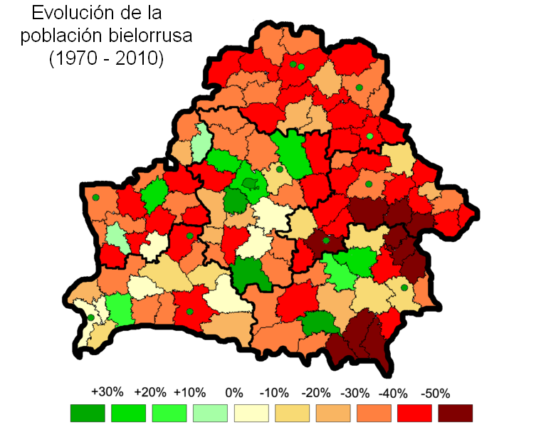 Evolution of the Belarussian population.